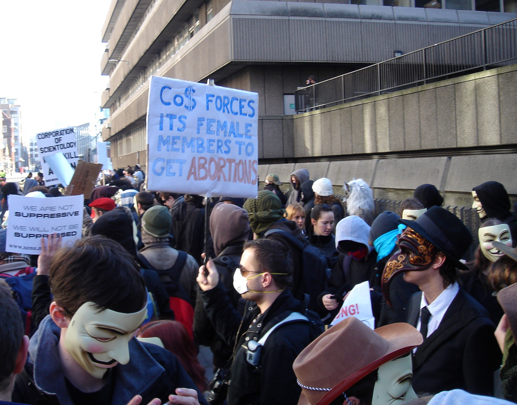 "Church of Scientology forces its female members to get abortions" reads the placard, alluding to the Mary Tabayoyon affidavit about life in Scientology's Sea Organisation